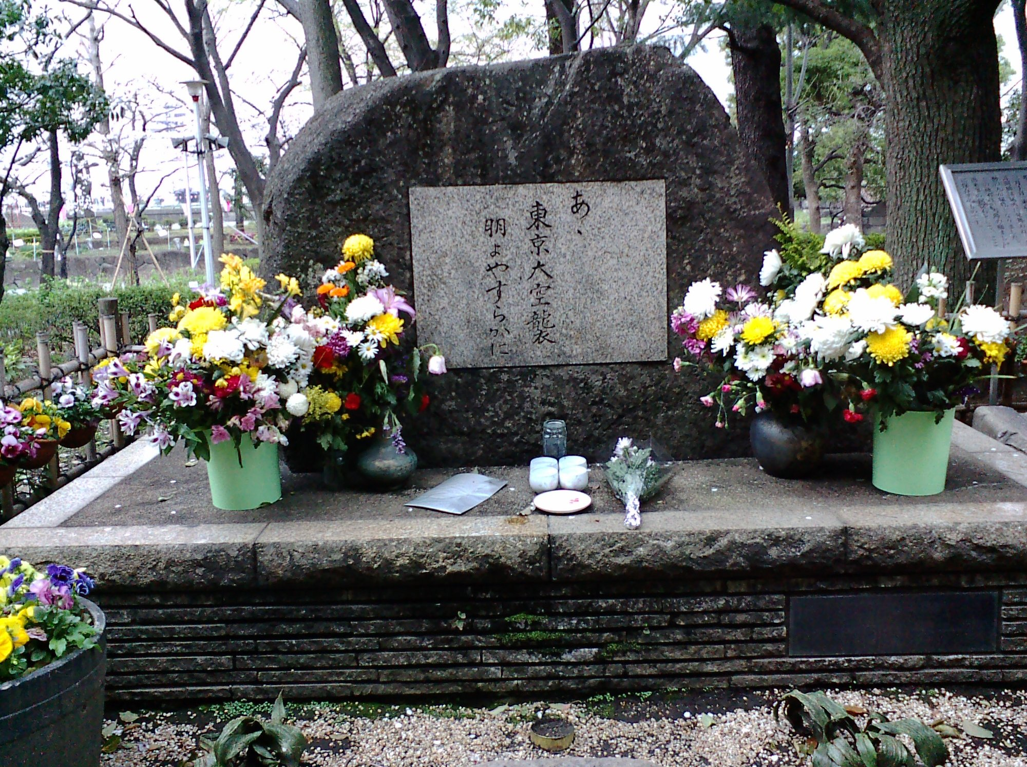 Cenotaph Taito Tokyo at Sumida Park-Bombing of Tokyo in World War II